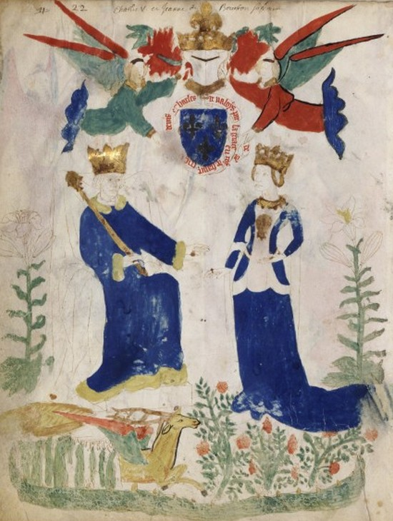 Charles VII et Marie d'Anjou